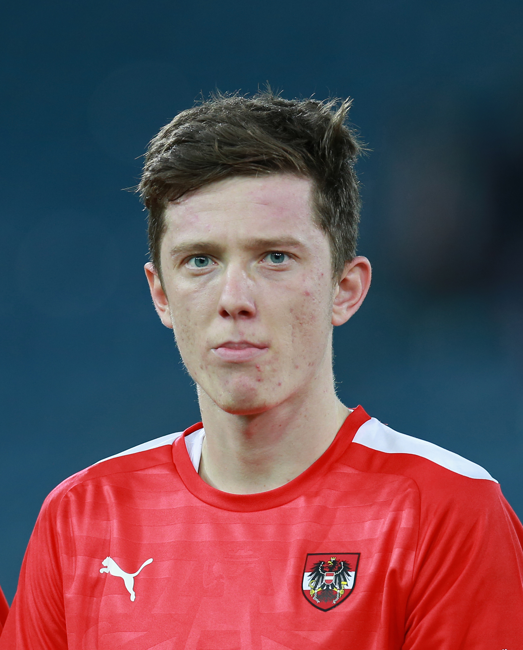 Michael Gregoritsch at national under-21 football game Albania vs. Austria in Graz, UPC Arena, 5. March 2014